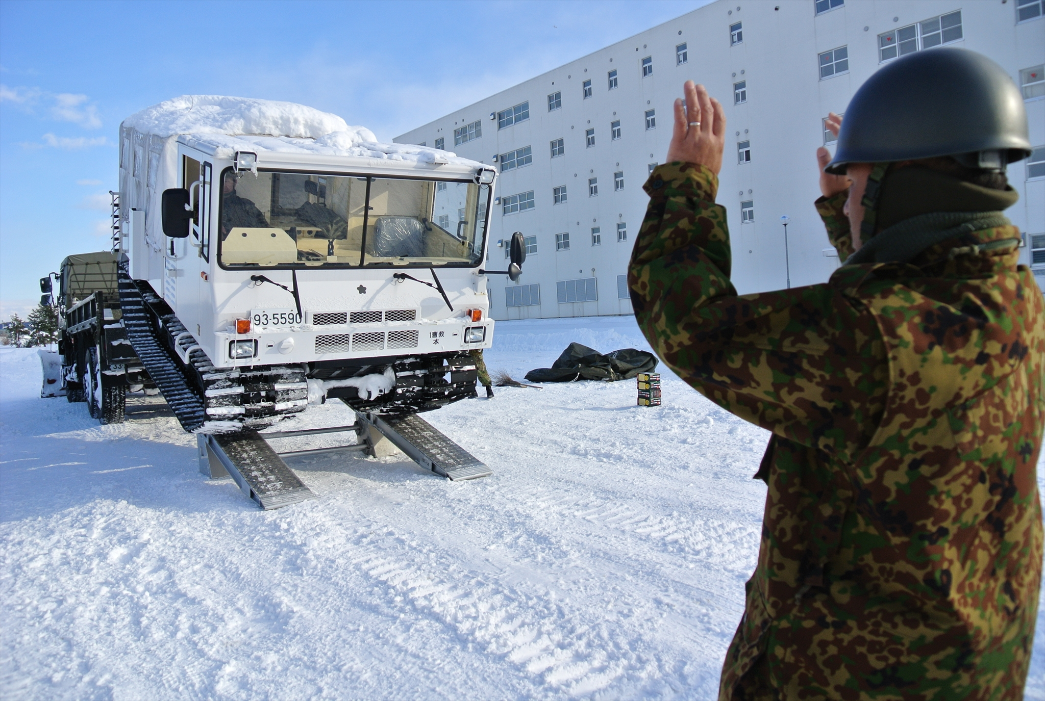 Title １０式雪上車 25.12.20 １曹教・１０式雪上車操縦訓練(1)_R.JPG Album 装備 １０式雪上車（操縦訓練・第１陸曹教育隊）